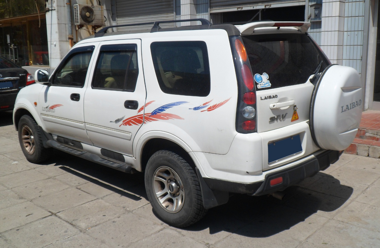 Shuanghuan Laibao S-RV photographed in Beijing, China.